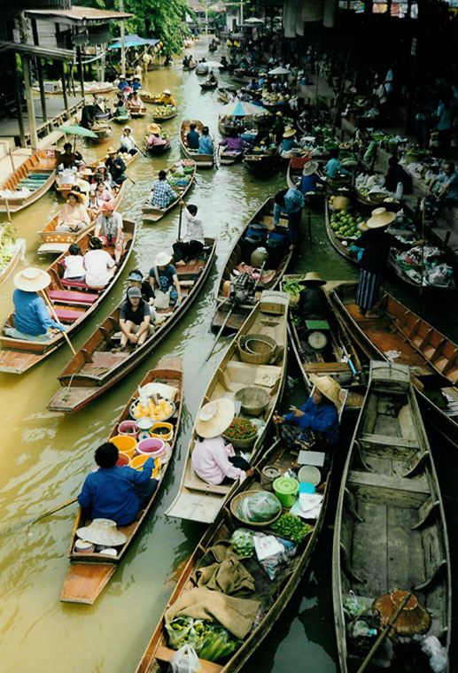 Floating Market, Damnoen Saduak - Thailand, 1997